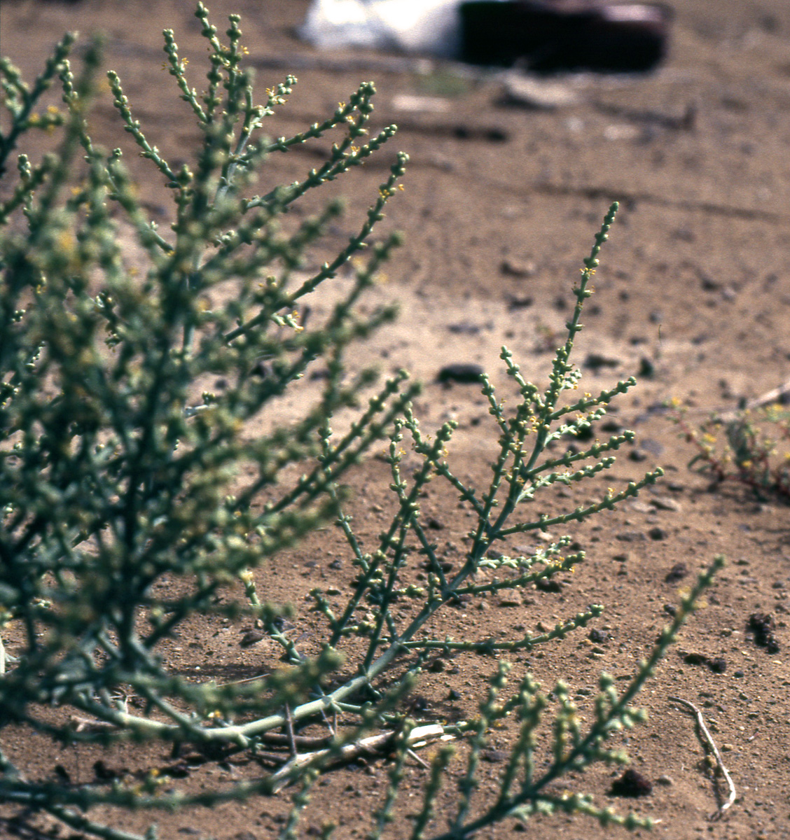 Salsola stocksii (Synonym Haloxylon stocksii) - Pakistan, Karachi, University campus